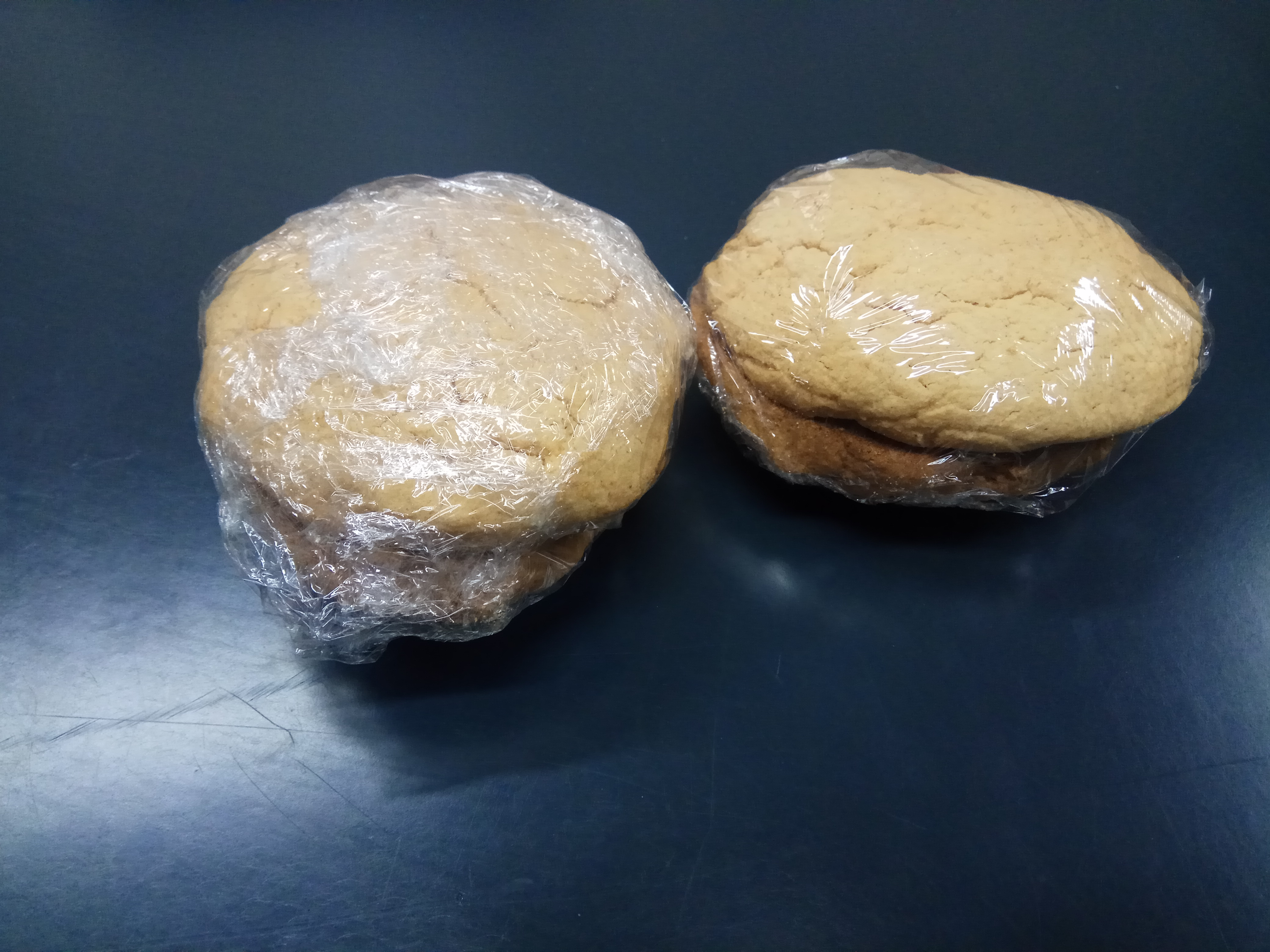 Traditional cookie from Elbasan, Albania called Ballokume